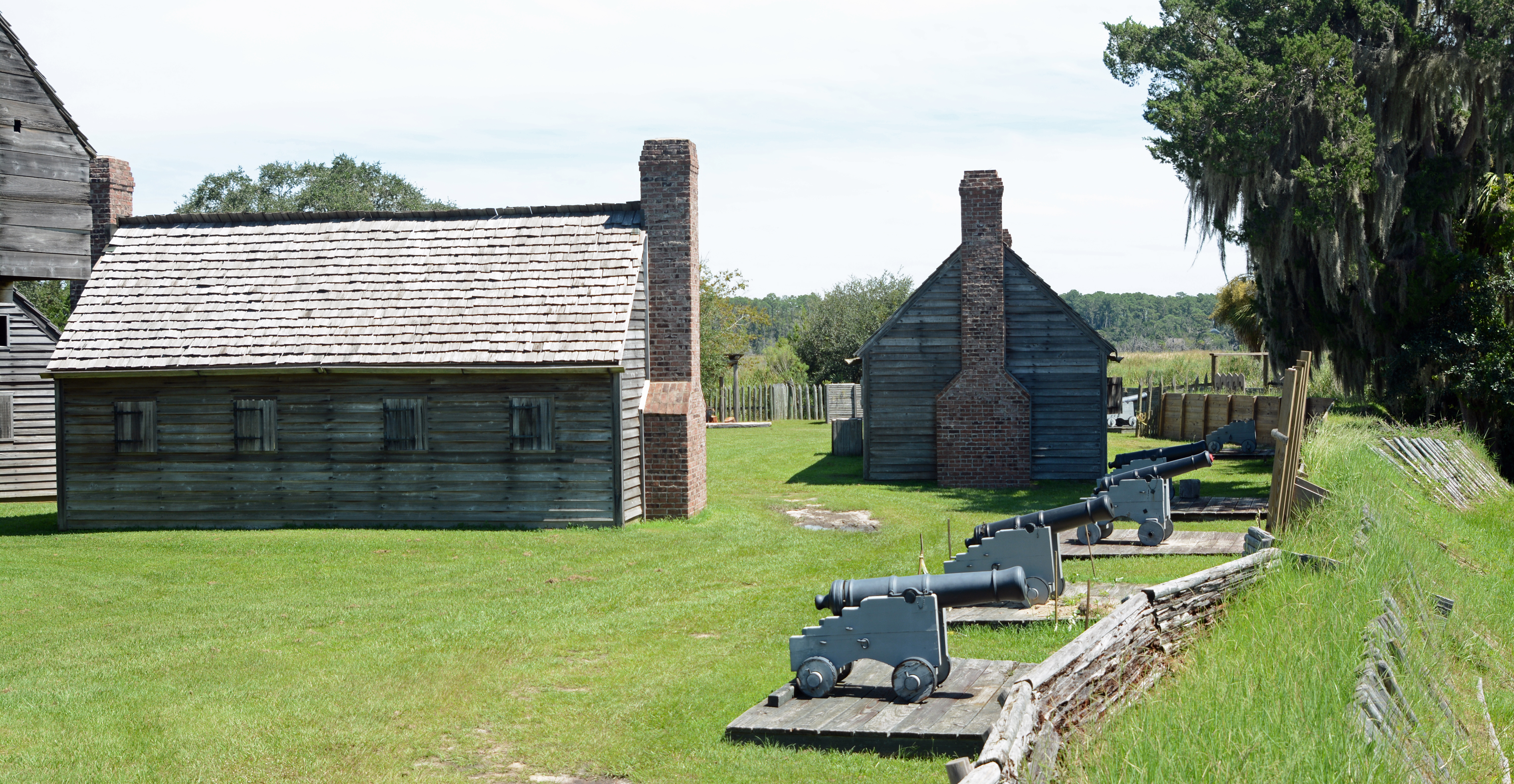 Wall on the riverside with canons at Fort King George in McIntosh County, Georgia, US